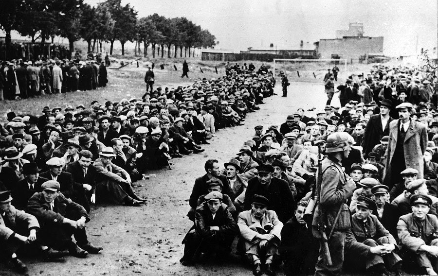 Poles from Gdynia arrested by German occupants on first days of Second World War. During so called Säuberungsaktionen (“cleaning actions”), conduced in Gdynia between 14 and 30 September 1939, almost 2500 Poles were arrested and imprisonment. Many of them were later murdered in Piaśnica forest or in Stutthof concentration camp.